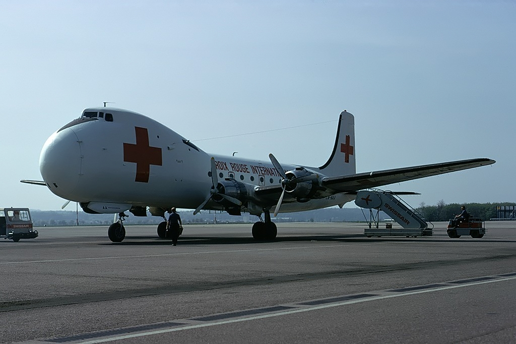 Red Cross (leased from Rørosfly Aviation Traders ATL-98 Carvair LN-NAA at Euroairport